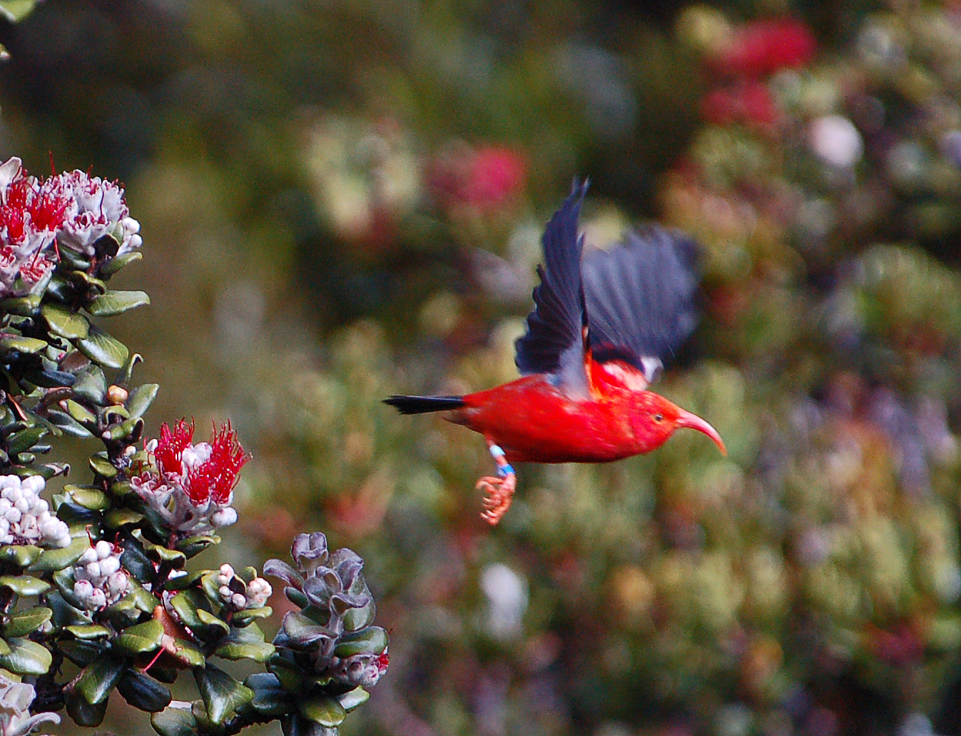 ʻIʻiwi,Vestiaria coccinea is taking off in Hawaii